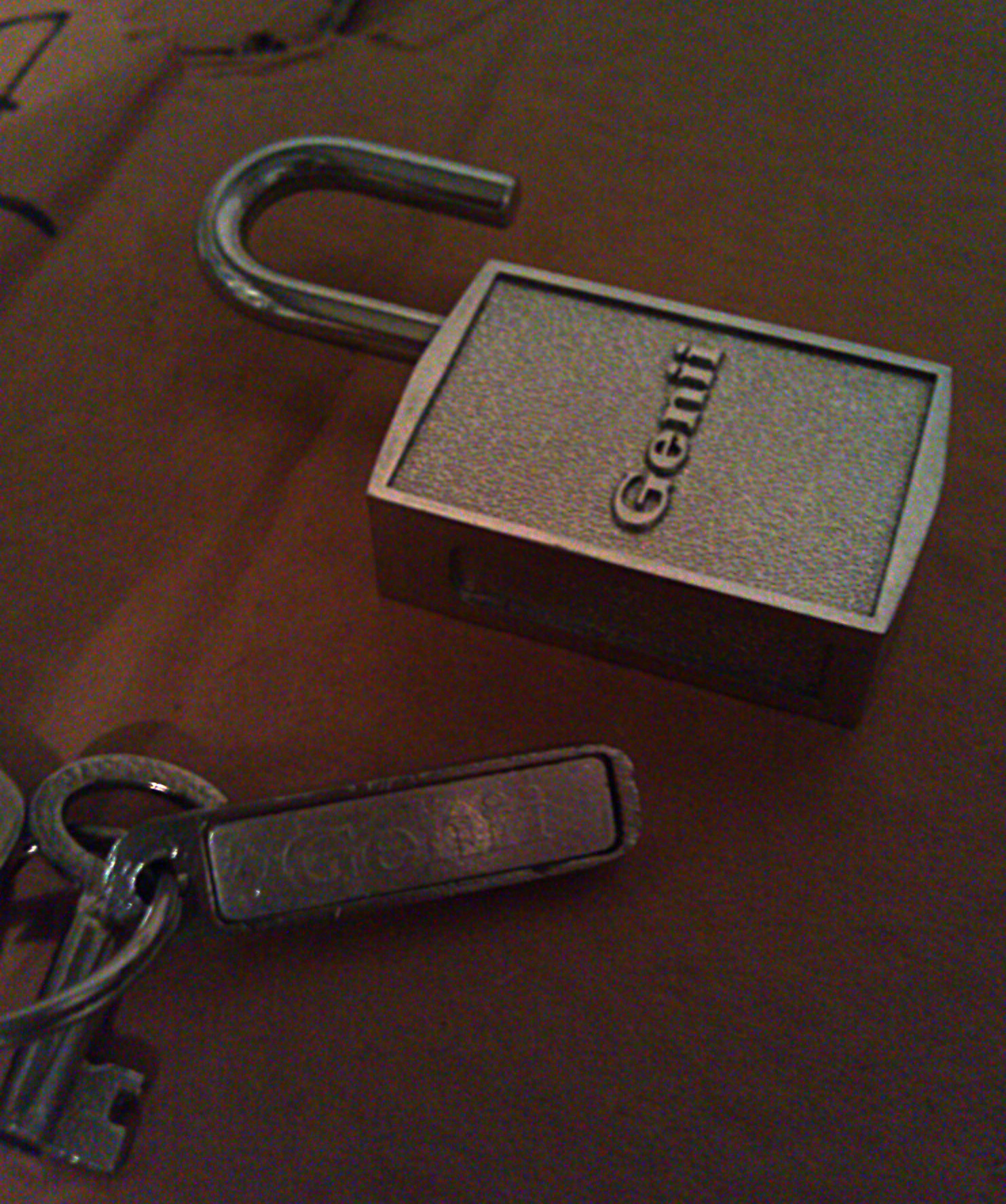 A magnetic keyed padlock of the Genii brand